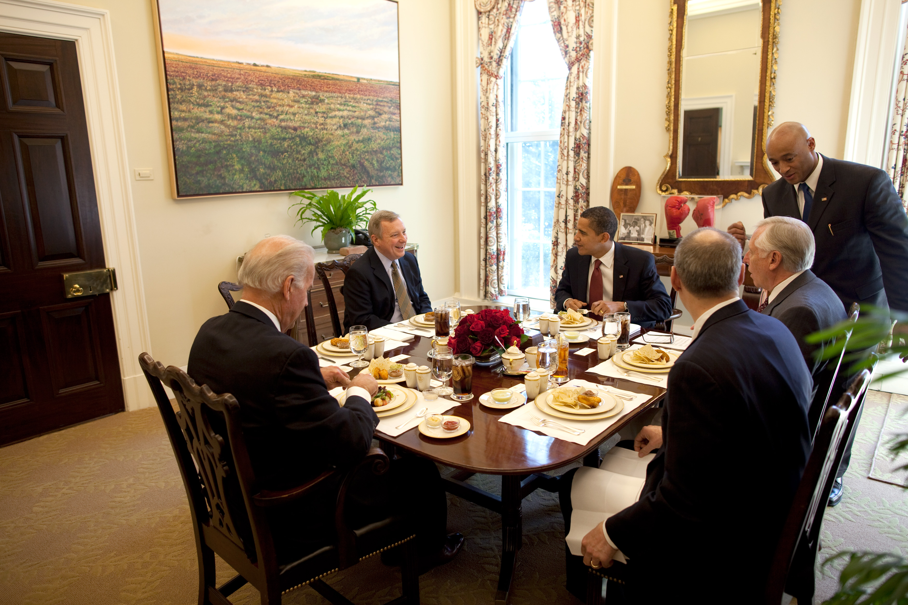 President Barack Obama and Congressional Members, Senator Richard Durbin and Rep. Steny Hoyer eat lunch with Vice President Joe Biden and Assistant to the President for Legislative Affairs Phil Schiliro in the Oval Office Private Dining Room 3/12/09.